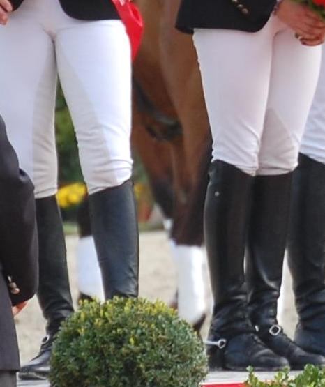 riding breeches: Full Seat Breeches (left)